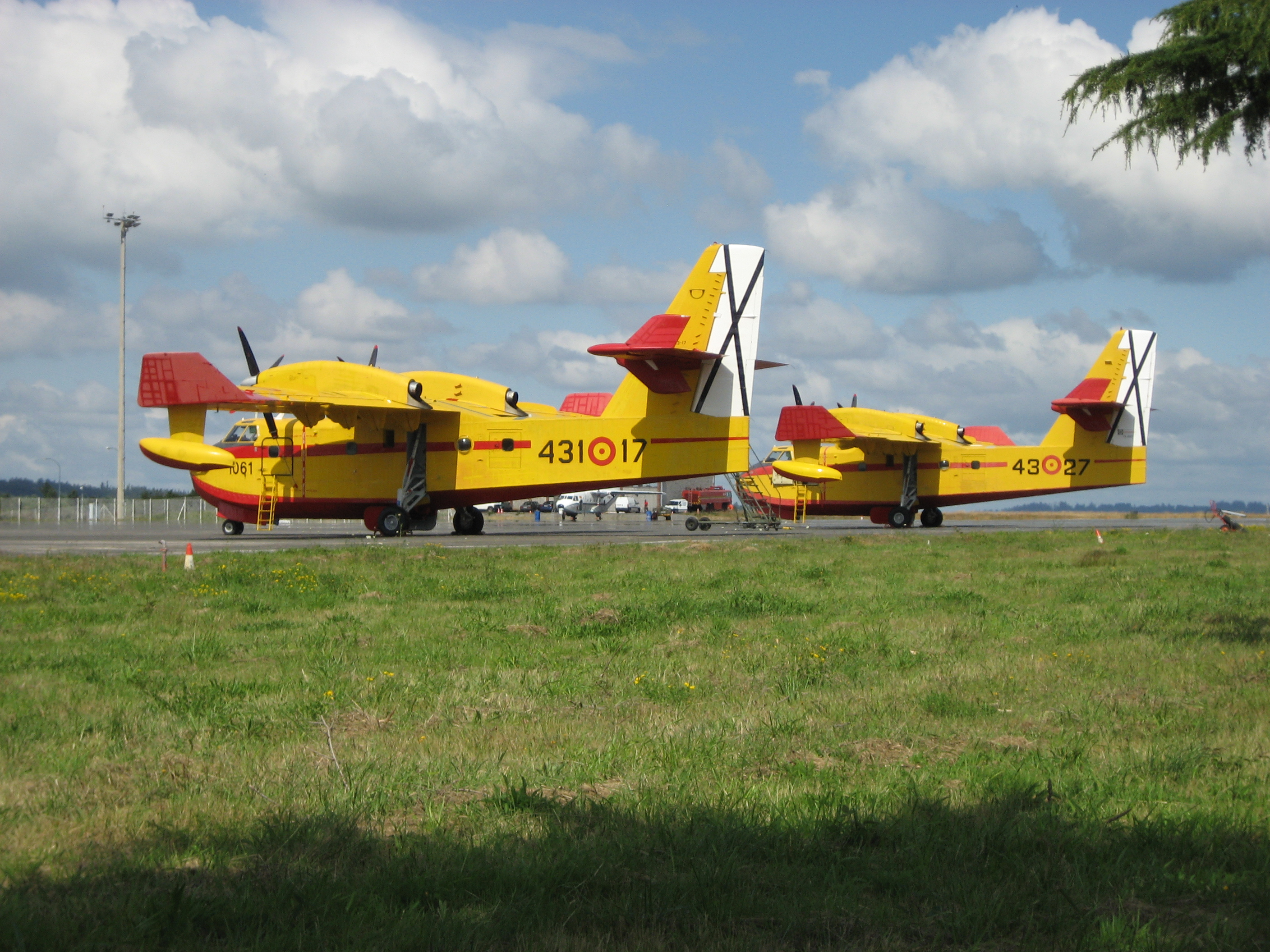 Two Spanish Air Force's Canadair CL-215T in the airport of Santiago de Compostela, Spain, 12 July 2008